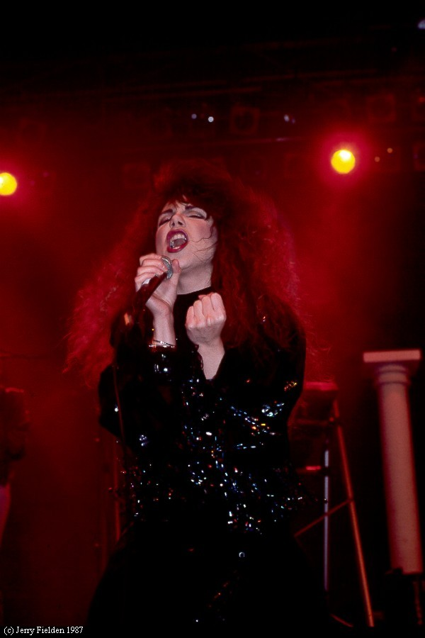 Lee Aaron Massey Hall